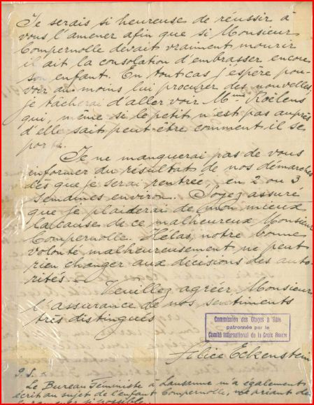 Copyright Matthias Eckenstein